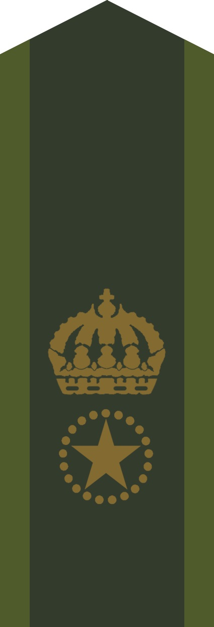 Insignia with 1 crown and 1 star button.